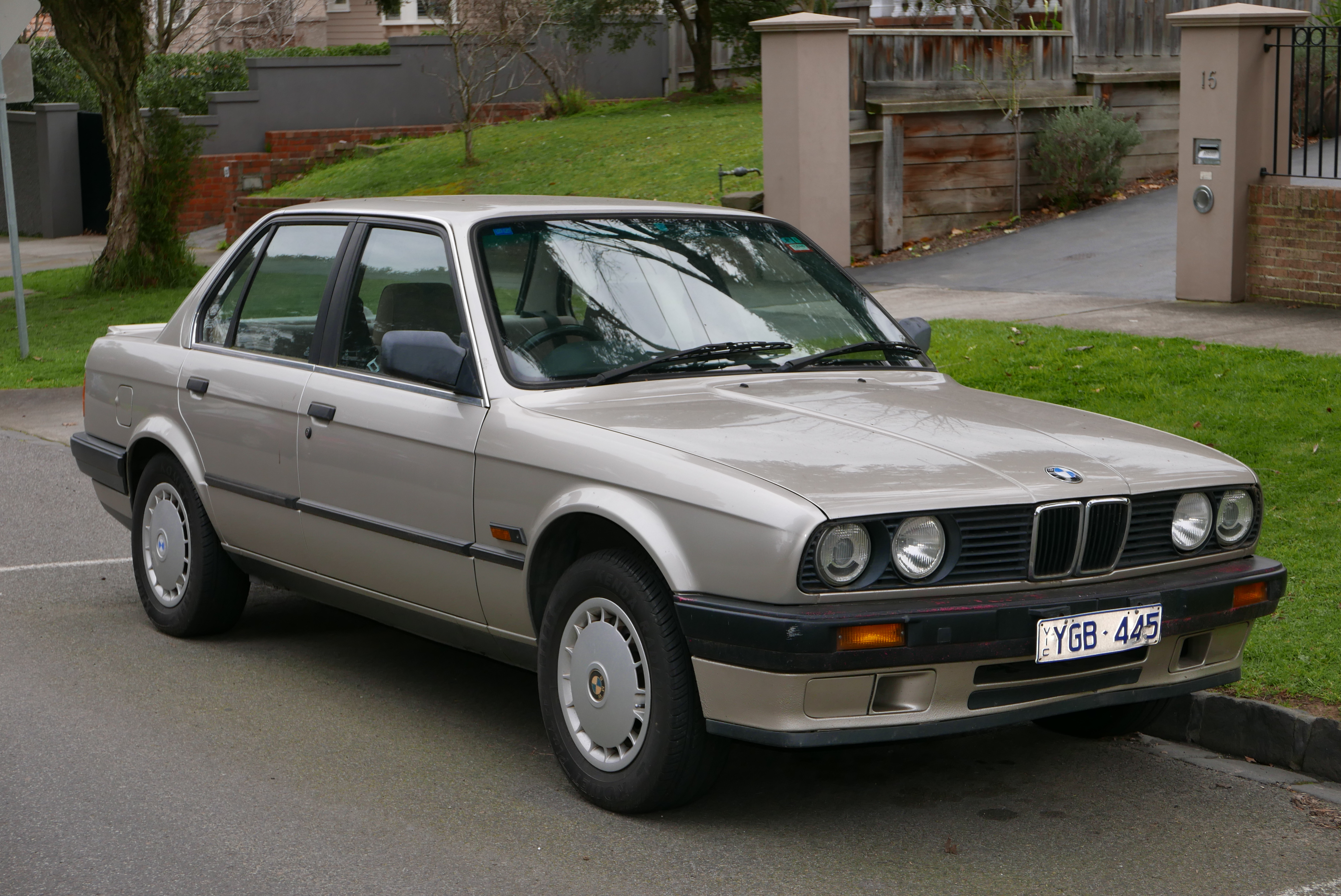 1990 BMW 318i (E30) 4-door sedan. Photographed in Kew, Victoria, Australia. Vehicle registration enquiry results Jurisdiction Victoria Registration YGB445 Chassis code WBAAJ52080AD90660 Engine code 00707103 Compliance date 1990-11 Year of manufacture 1991 (not a typo)